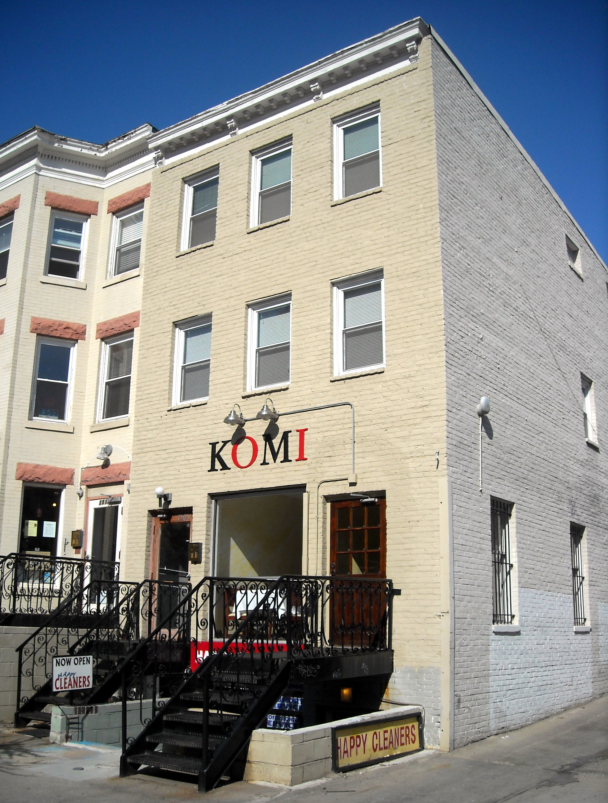 Komi located at 1509 17th Street, NW in the Dupont Circle neighborhood of Washington, D.C. The building was constructed in 1902 and is a contributing property to the Dupont Circle Historic District. Its 2009 property value is $3,419,800.